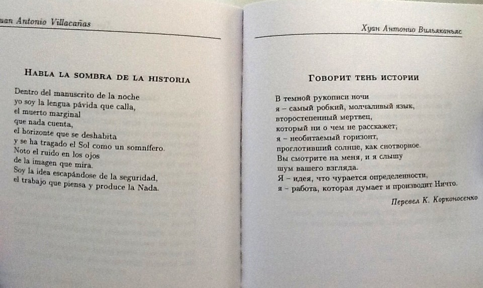 Picture from an anthology Russian-Spanish